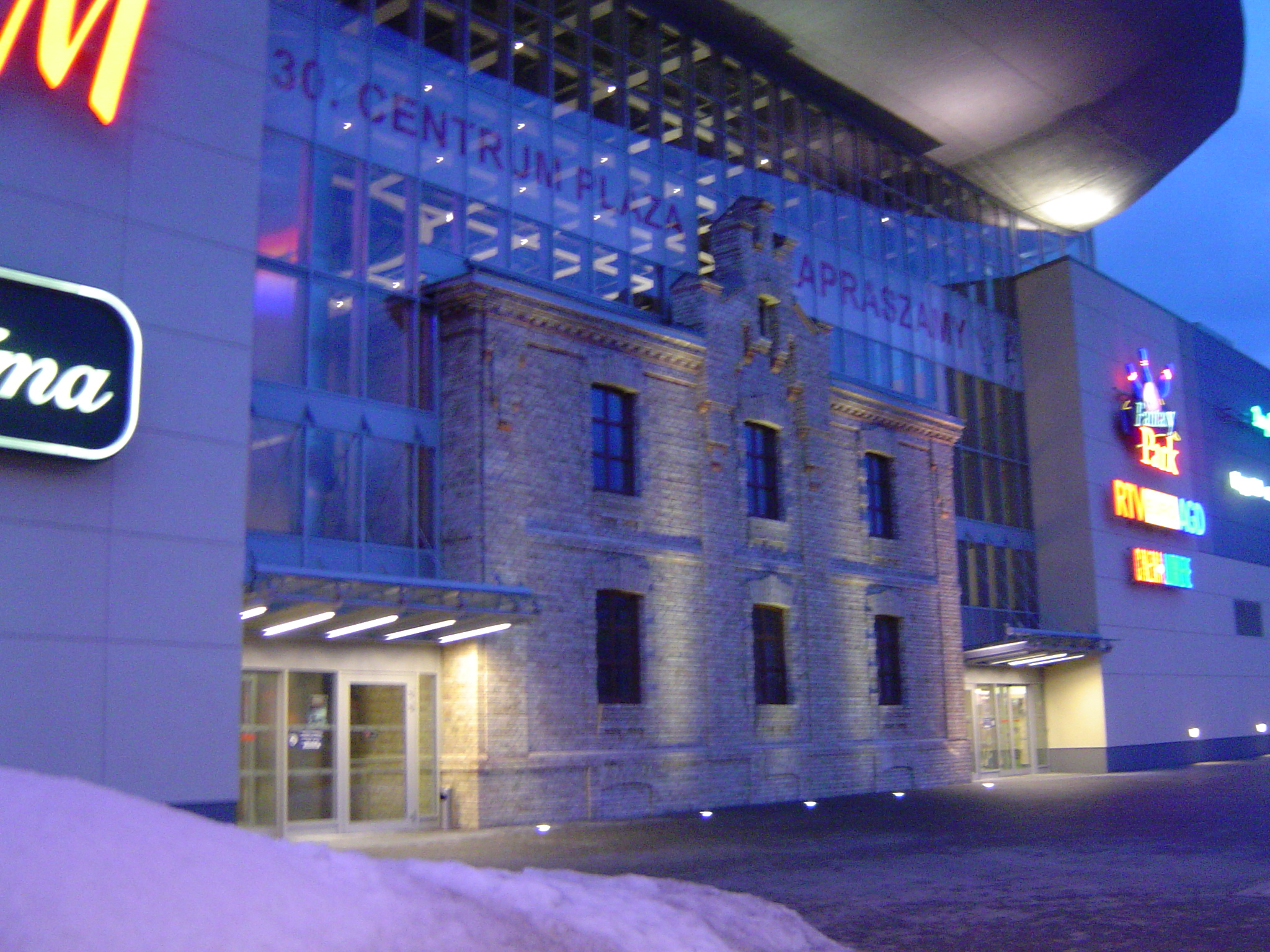 Entrance to shopping mall Suwałki Plaza in Suwałki, Poland